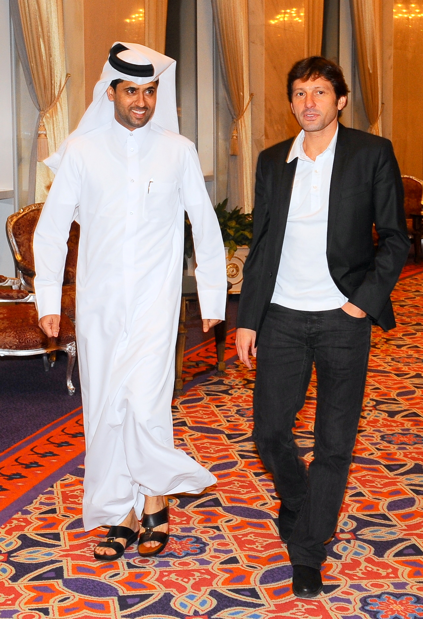 Paris St Germain top official Nasser Ghanem Al Kholaifi and Leonardo in Doha. Pic by Mohan